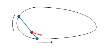 The principle of the theorem of Holditch